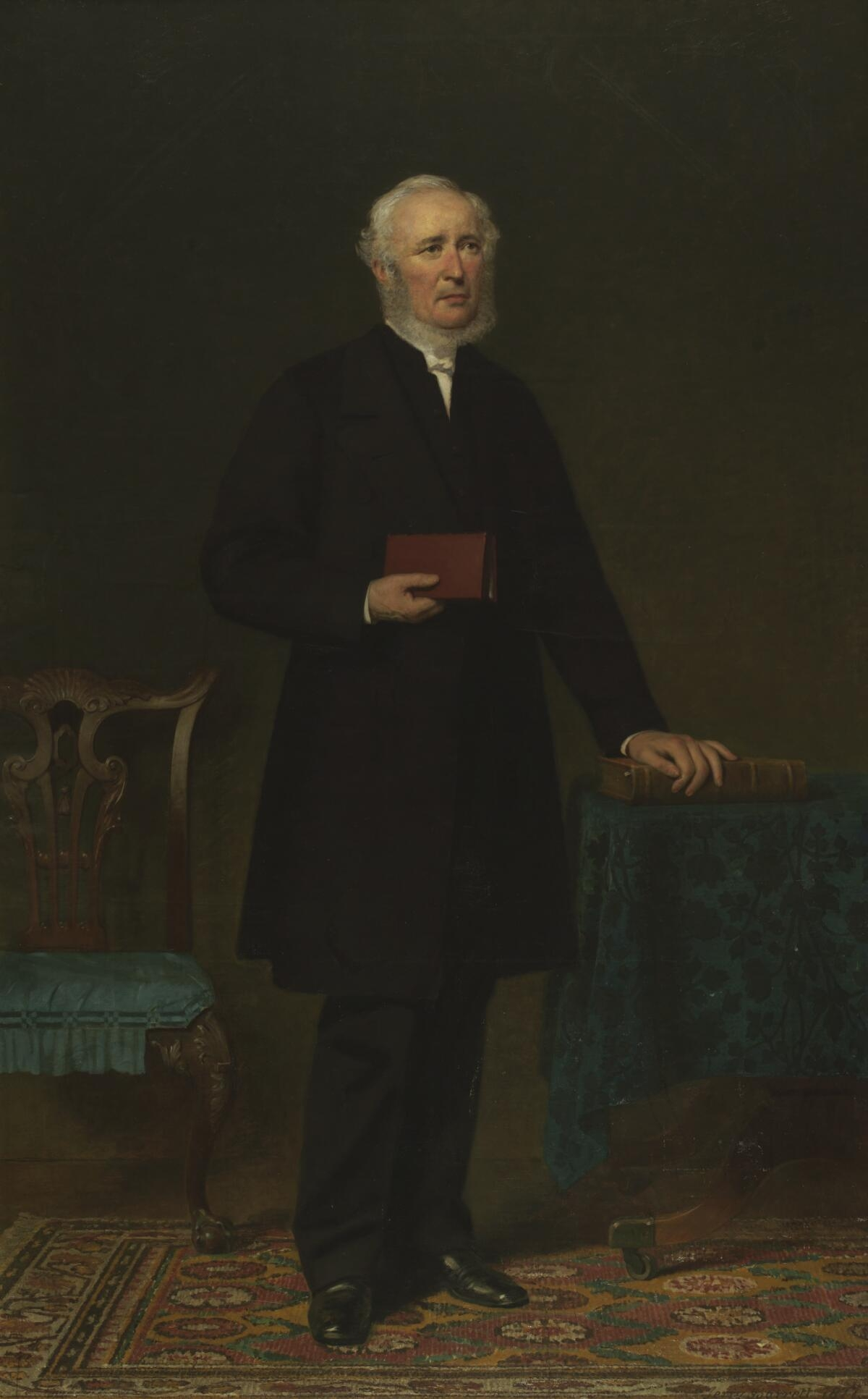 A painting from the Framed Works of Art collection at the National Library of wales.